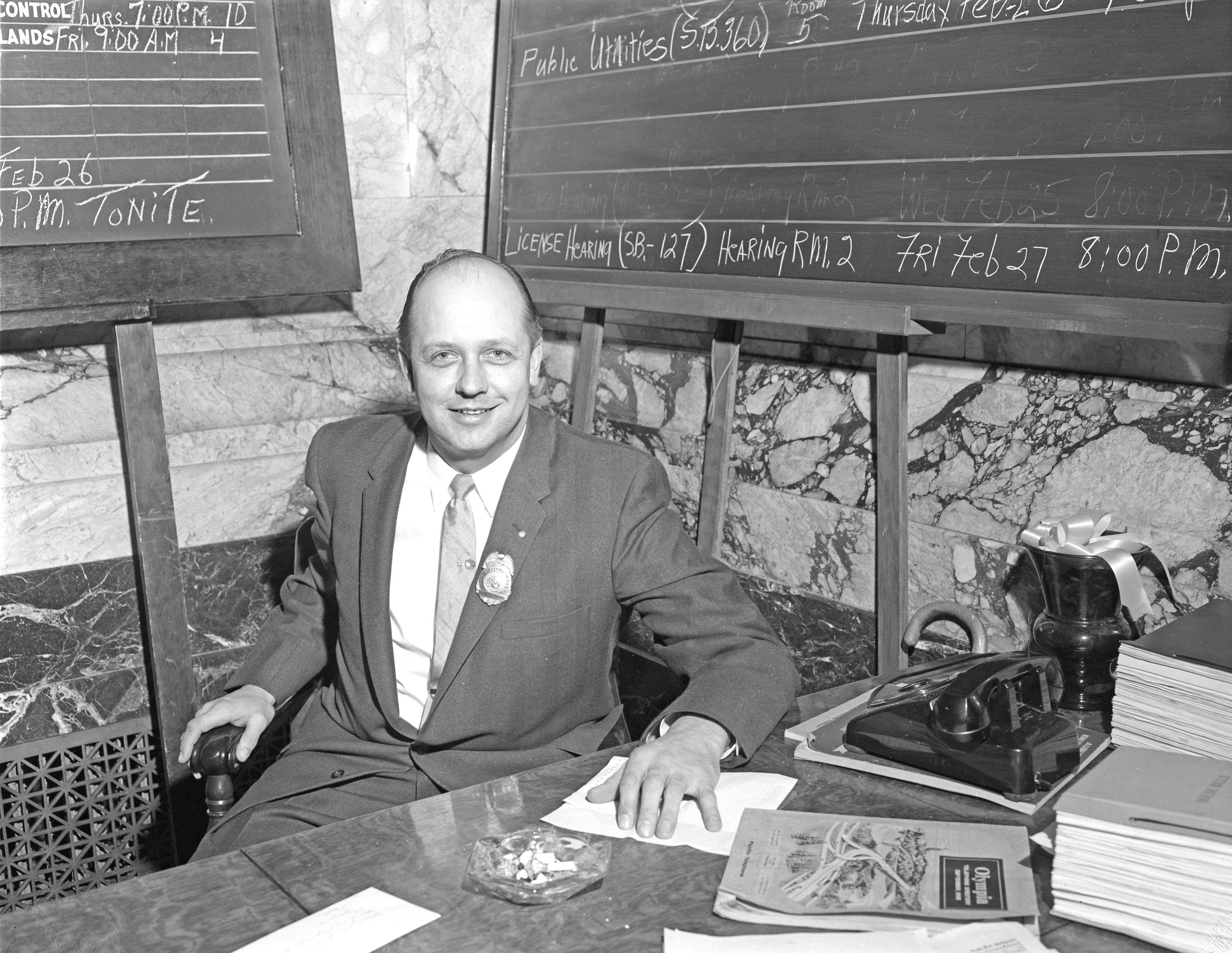 House of Representatives Sergeant at Arms Elmer A. Hyppa